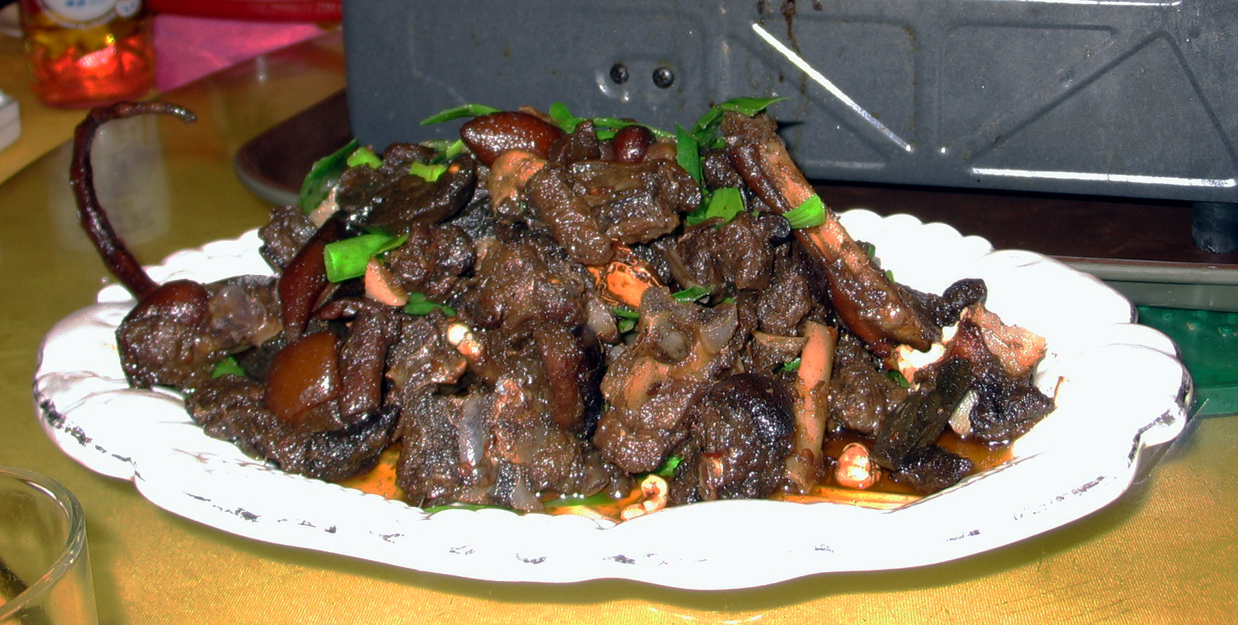 Plate of dog meat prepared for hot pot dinner in Guilin, China. The plate contains roughly 750g of cooked dog meat, seasoned and garnished. Note tail as garnish on left hand side of platter. Dog meat tastes more like pork than like beef/chicken/lamb/venison/rabbit/horse, but has a somewhat distinct flavour. There are a lot more bones, so eating it is more like eating chicken than pork, albeit with a much tougher, fattier skin. Photo taken by me May 2005, with Canon PowerShot A85.